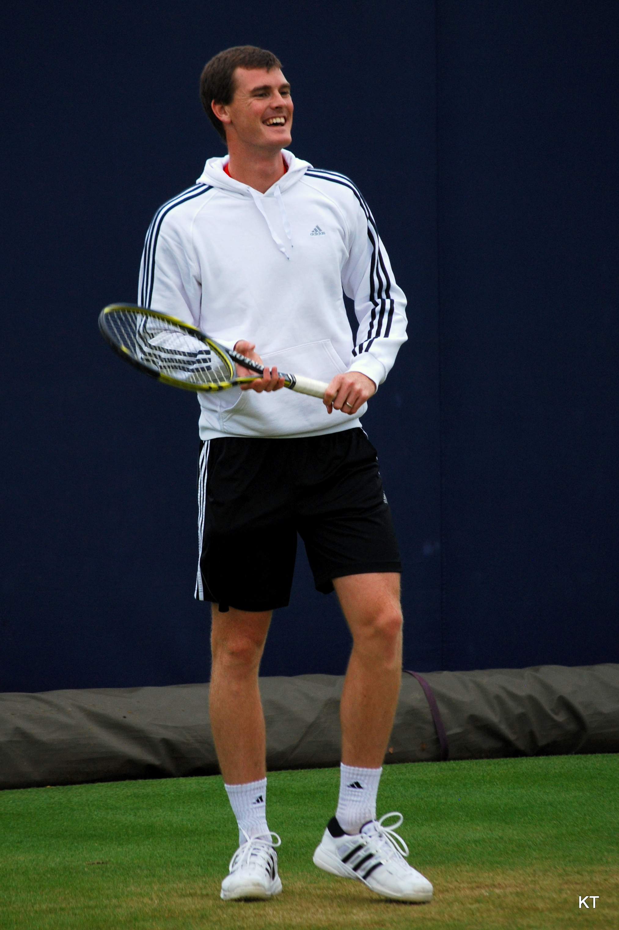 Jamie Murray praticing on the first day of the AEGON Championships at Queen's Club